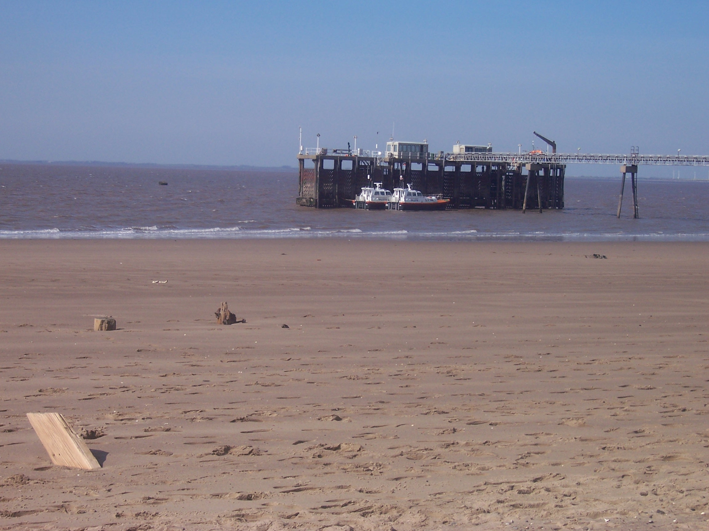 Spurn Point, East Riding of Yorkshire, England - Pier of Royal National Lifeboat Institution. This photo shows the pier used by lifeboats at Spurn Point.